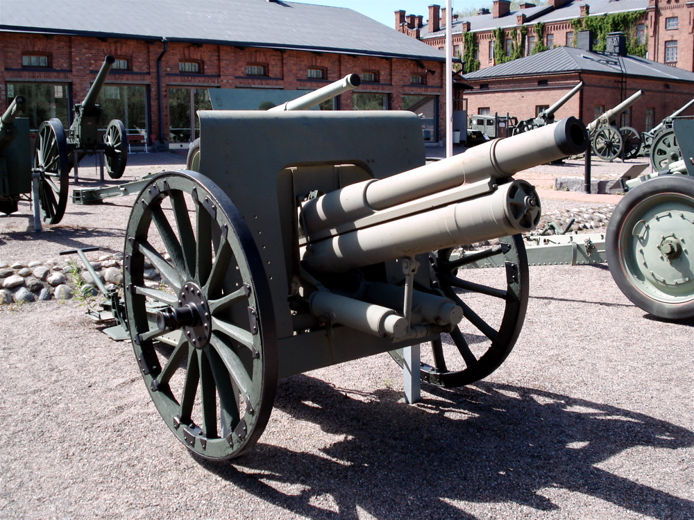 Russian 76.2 mm gun Model 1902/30, displayed in Hämeenlinna Artillery Museum. Photo taken on June 18, 2006. Source: Photo by me, User:Balcer.